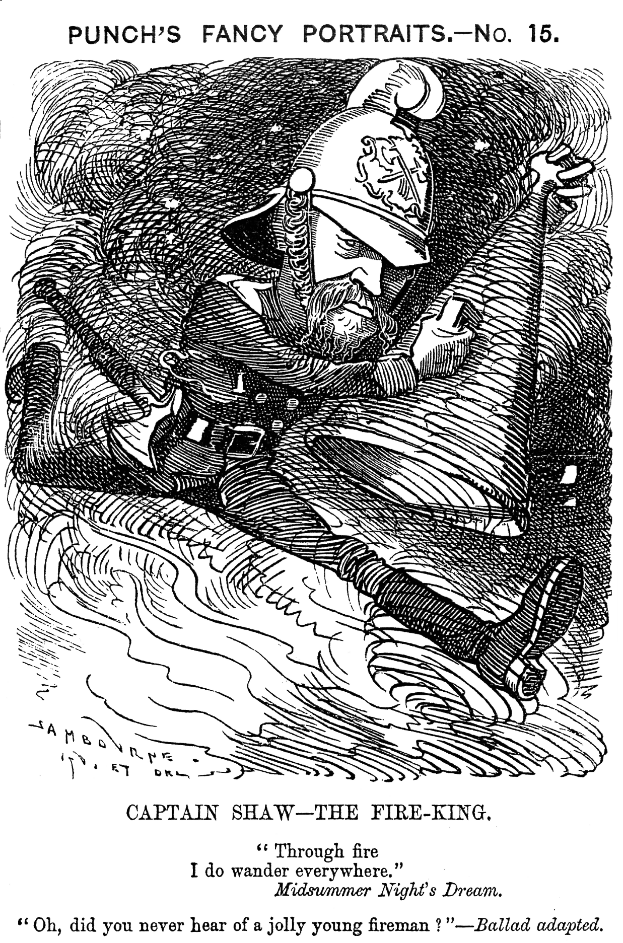 Captain Eyre Massey Shaw in Punch.